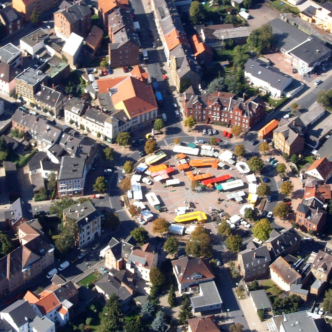 Peine Hagenmarkt